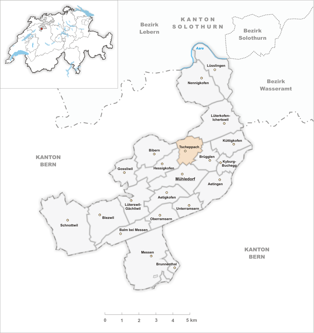 Municipality Tscheppach